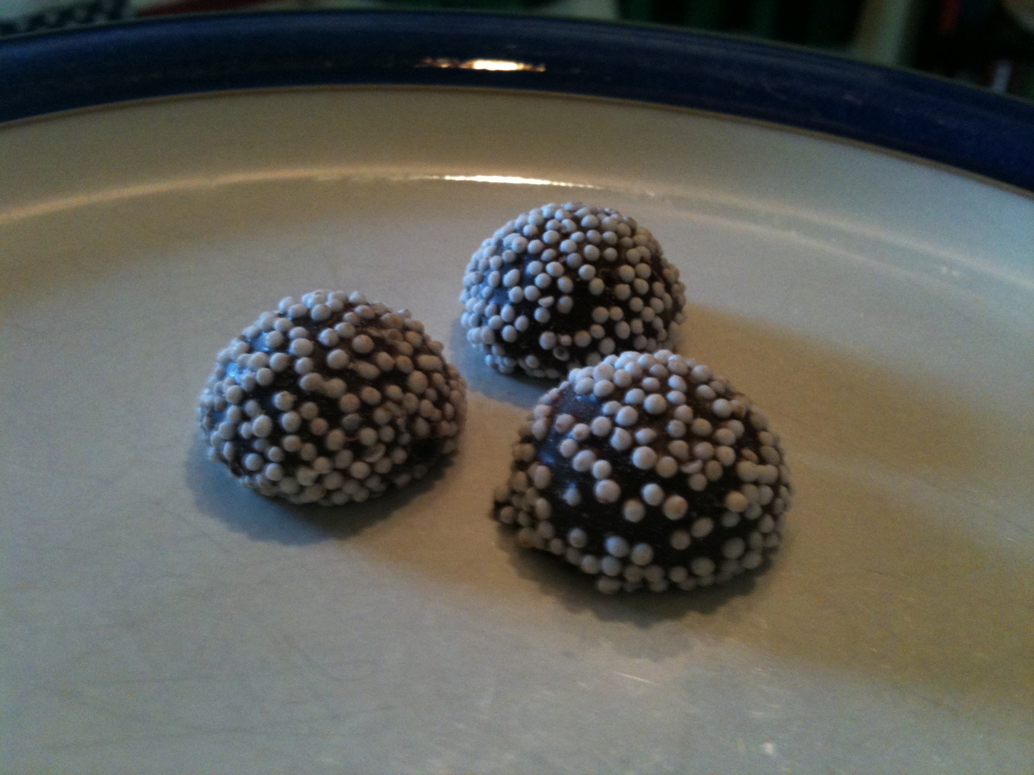 Punsch pralines.